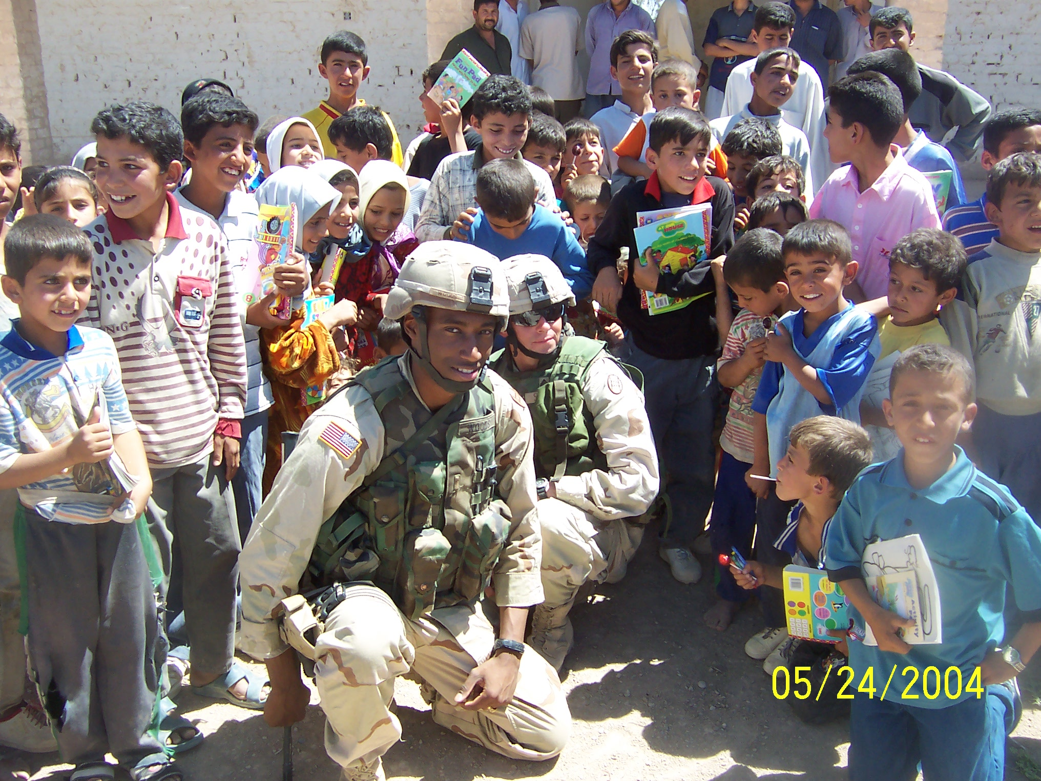 Anthony Woods in Iraq